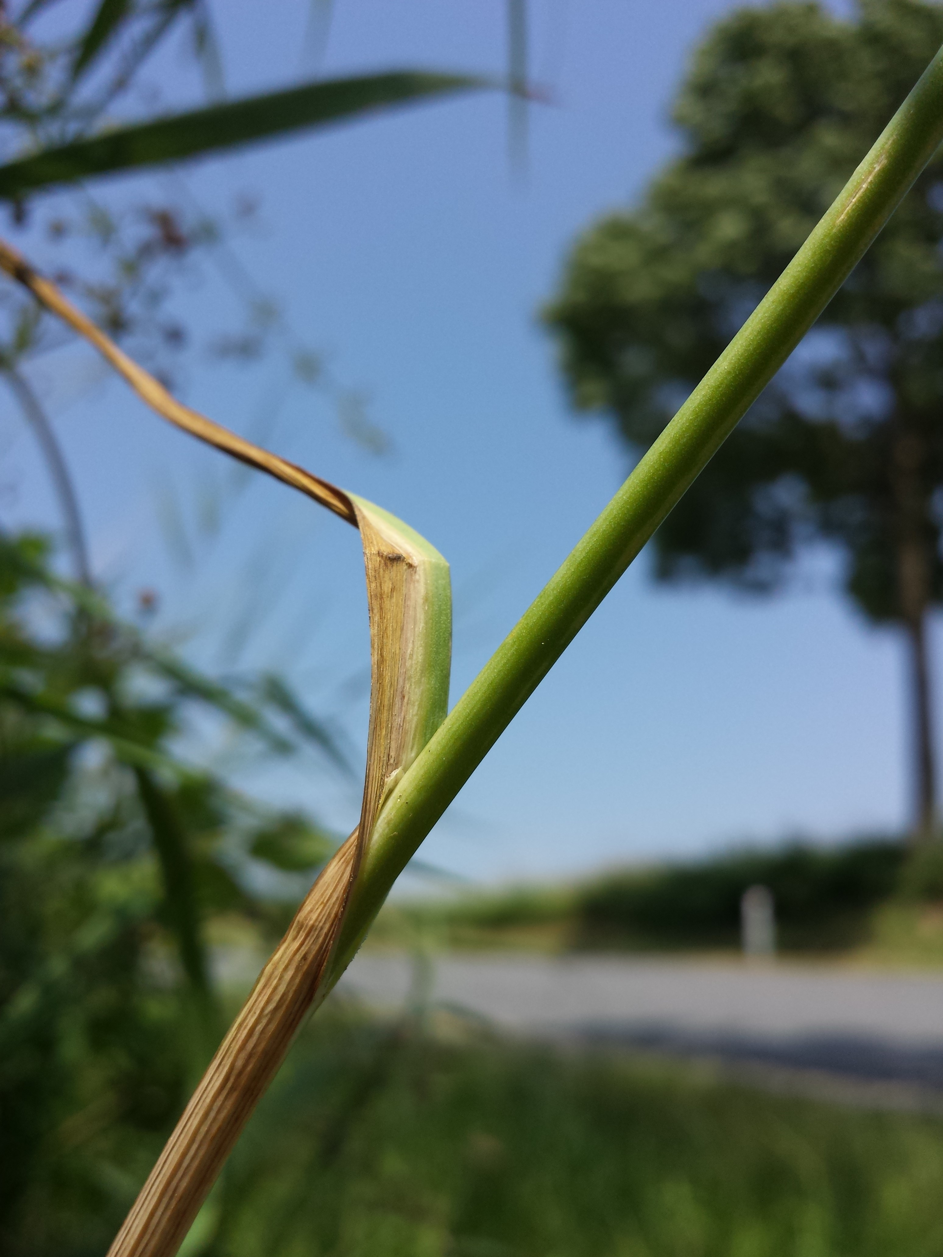 Stipe with leaf Taxonym: Allium rotundum ss Fischer et al. EfÖLS 2008 ISBN 978-3-85474-187-9 Location: next to Obergänserndorf, district Korneuburg, Lower Austria - ca. 250 m a.s.l. Habitat: roadside